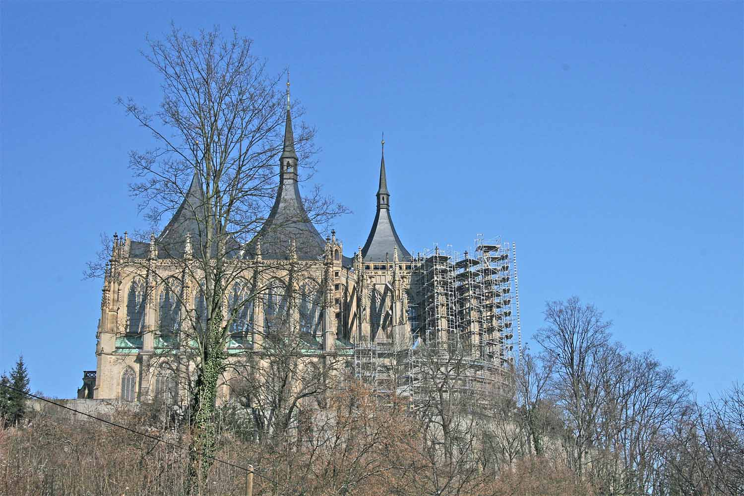 Descr.: Kutná Hora - St. Barbara Church, viewed from South Česky: Kostel sv. Barbary v Kutné Hoře